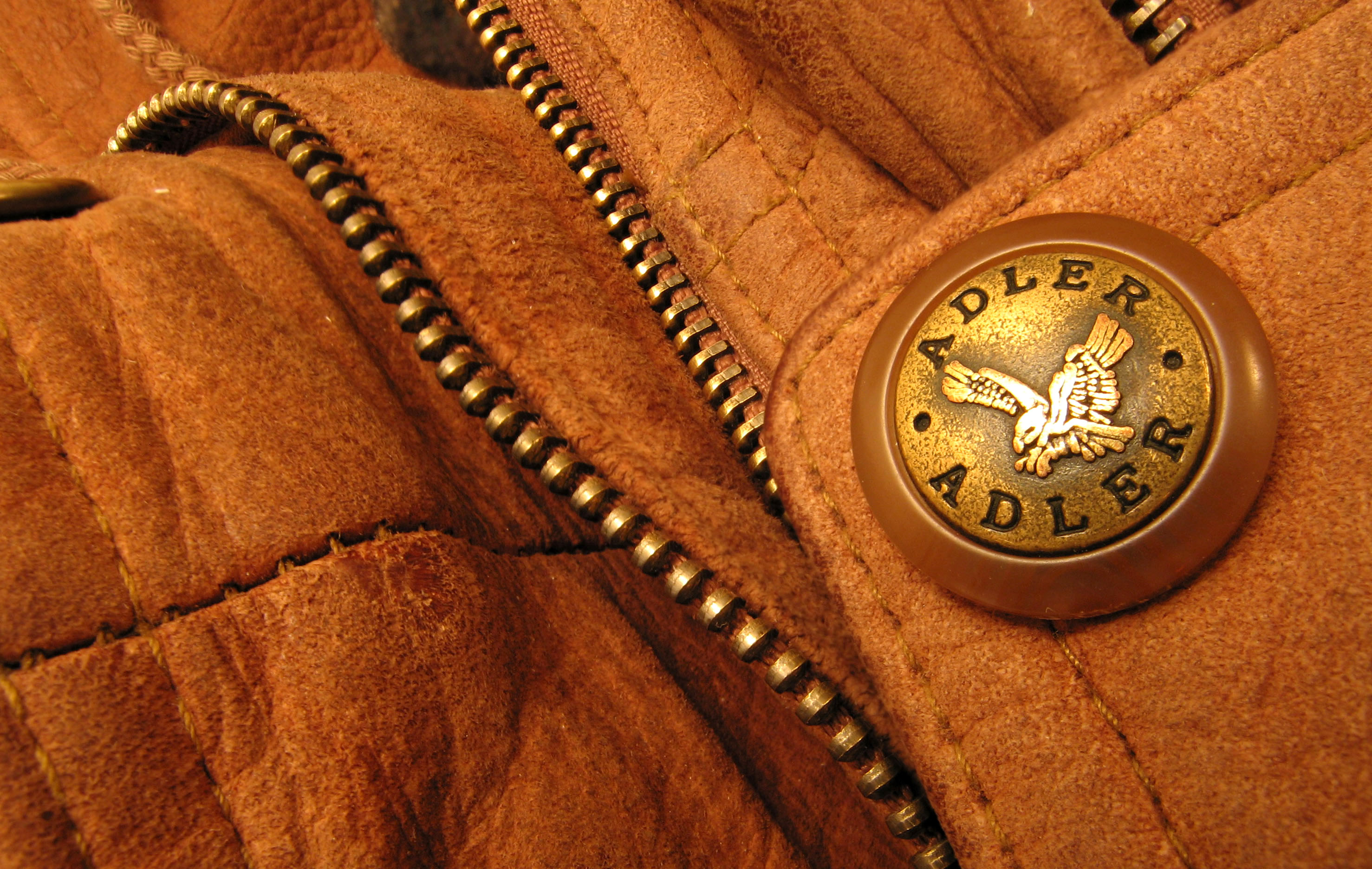 My suede jacket, a gift from my grandparents about five years ago. I like it a lot. :) I tried blending together several different pictures set at different focus, so I could get more of the image nice and sharp.